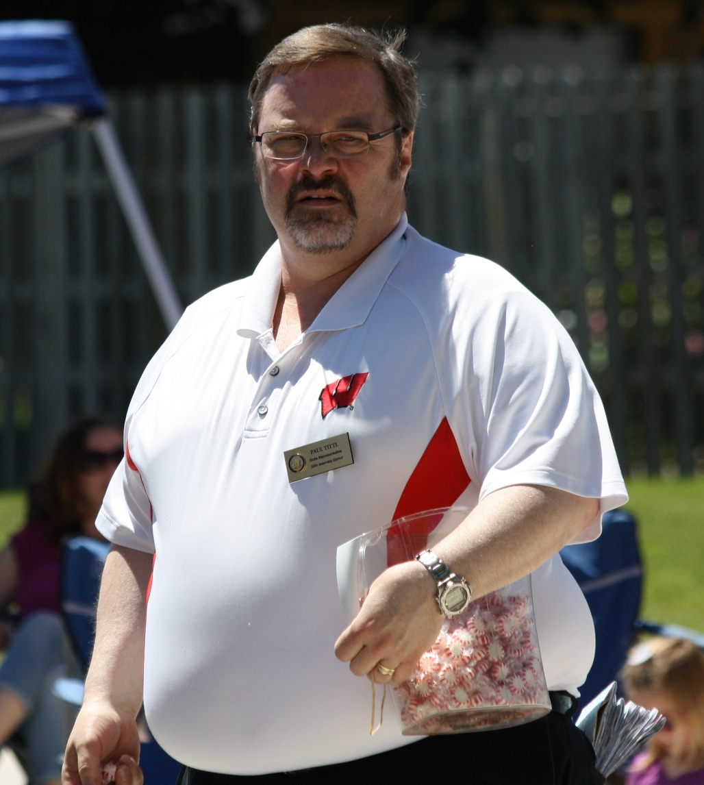 State Assemblyman Paul Tittl walking and handing out candy at the Chilton, Wisconsin parade.